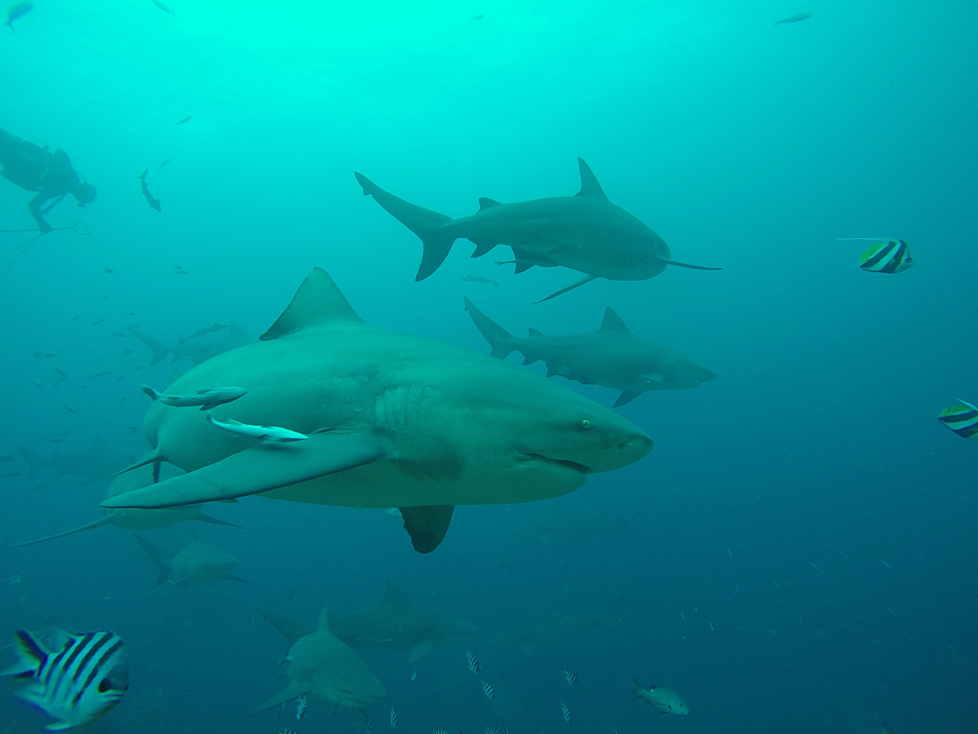 Bull sharks (Carcharhinus leucas) at Beqa shark dive, Fiji